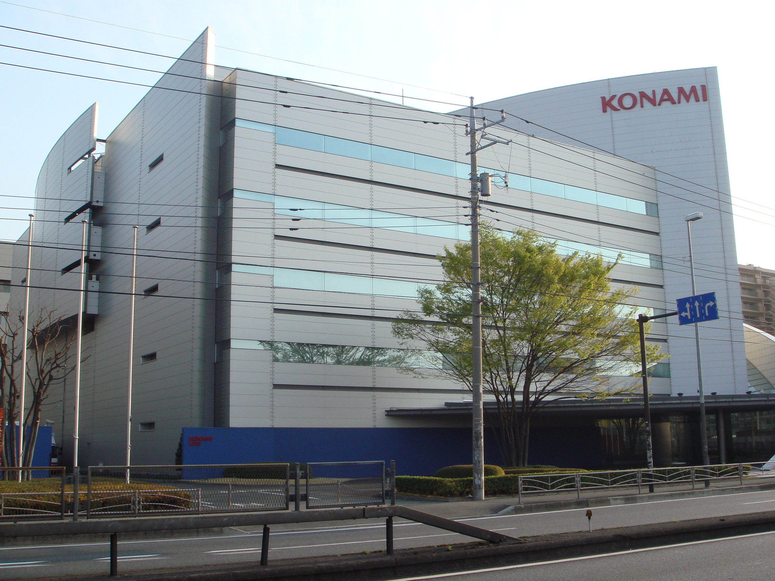 KONAMI Zama Office overview.